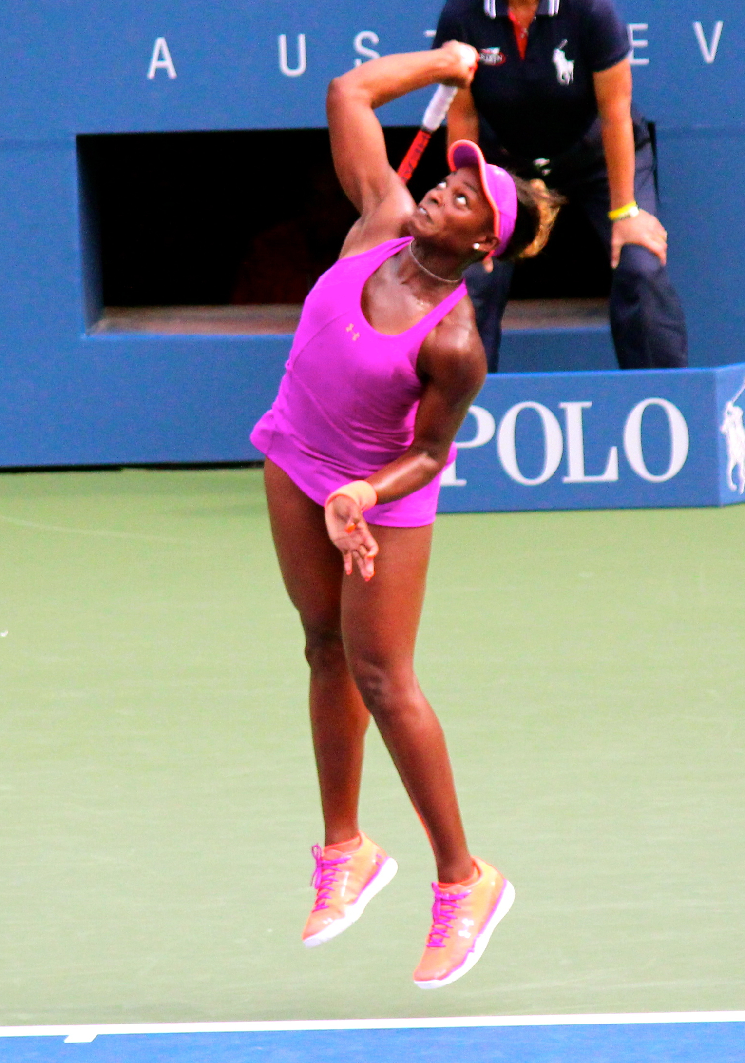 Sloane Stephens at the US Open vs. Serena Williams